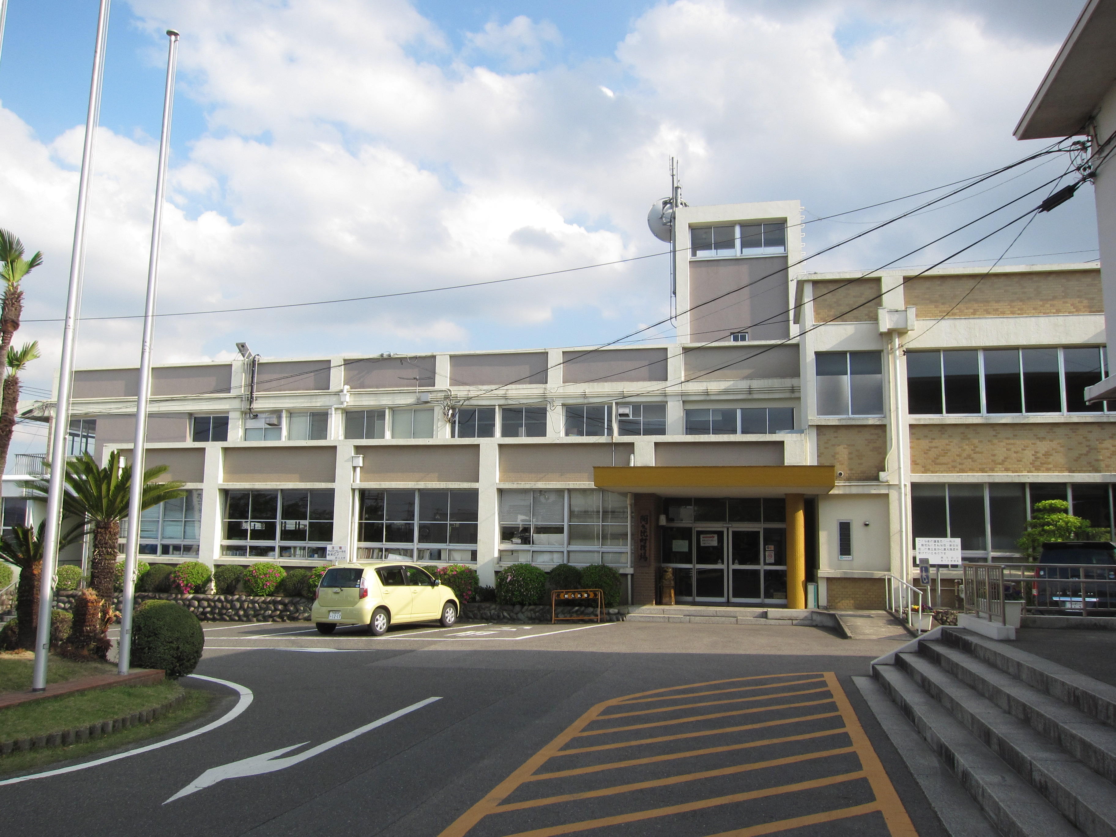 Agui Town Hall